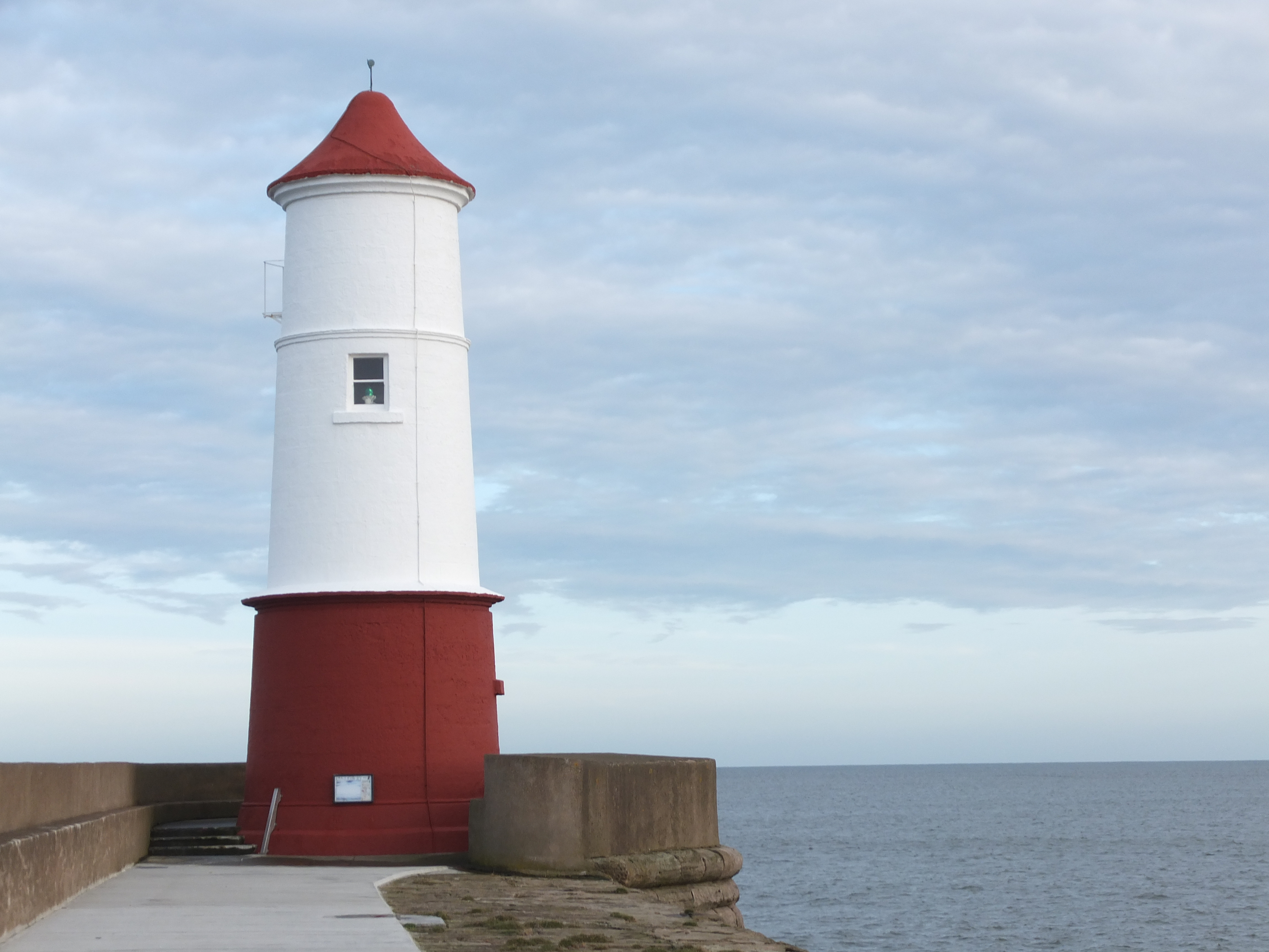 Berwick Lighthouse, smartly-painted